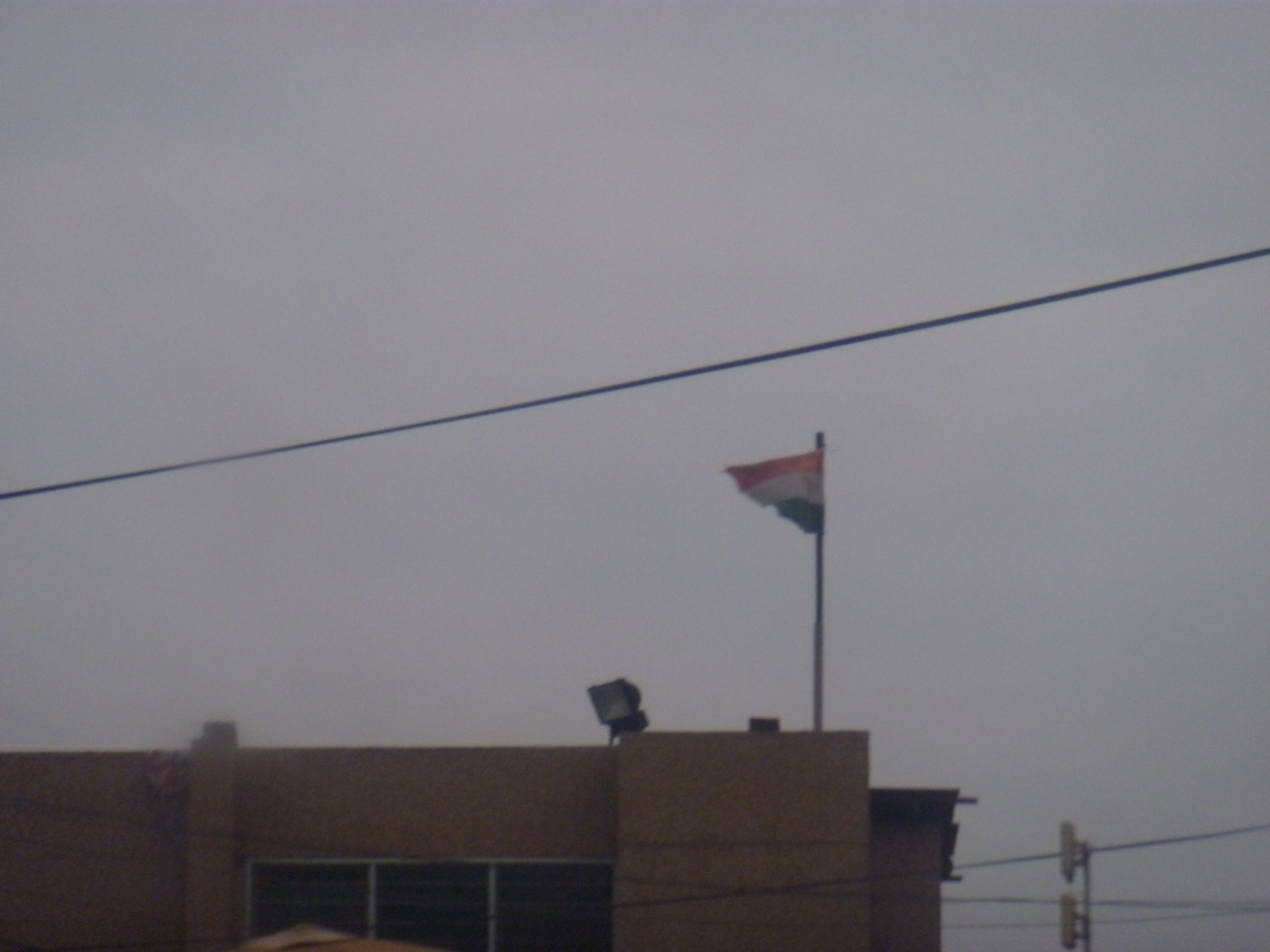 Niger Flag flying over Niger's embassy in Accra, Ghana